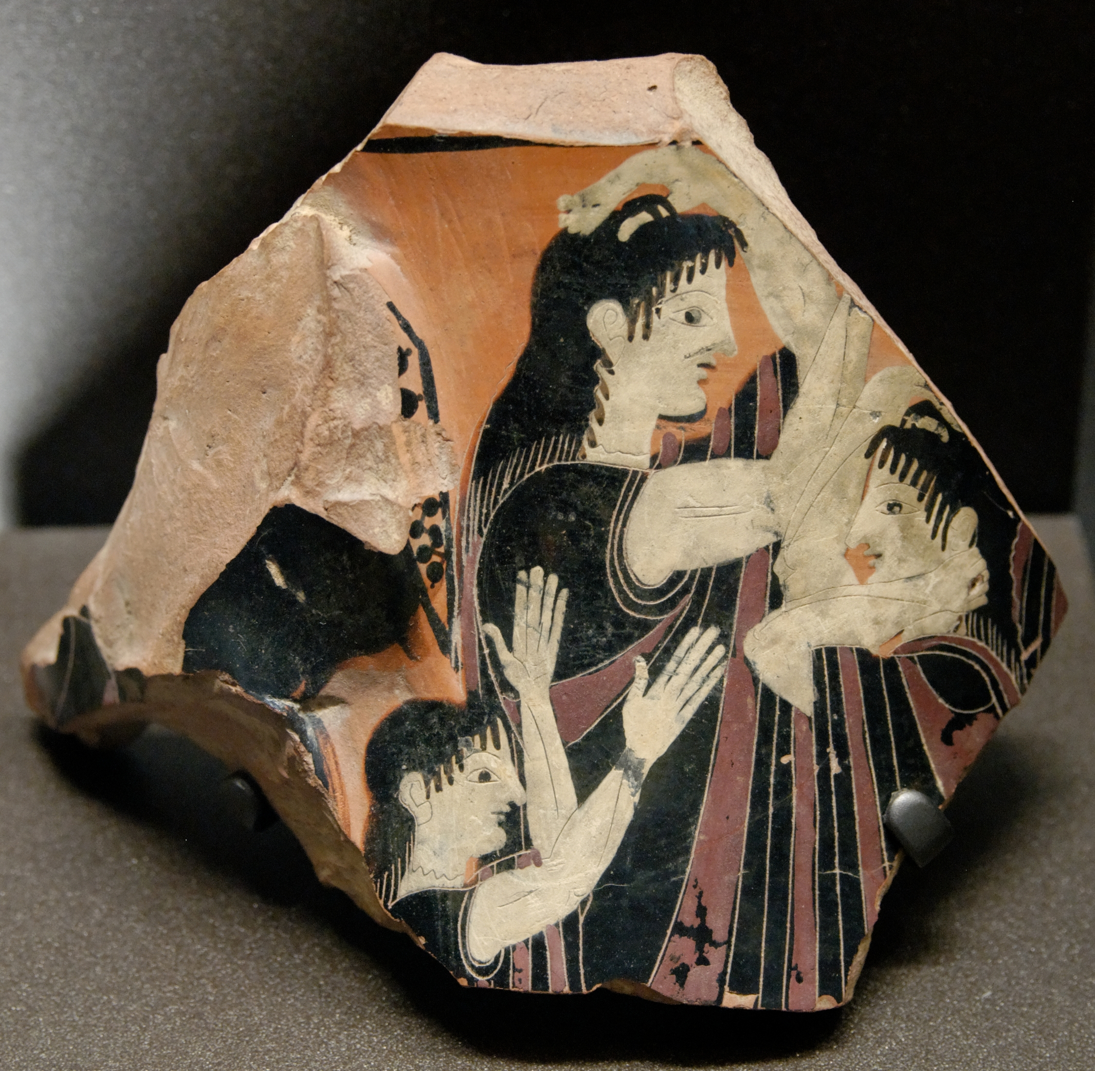 Female mourners. Fragment of an Attic black-figure loutrophoros. From Greece.